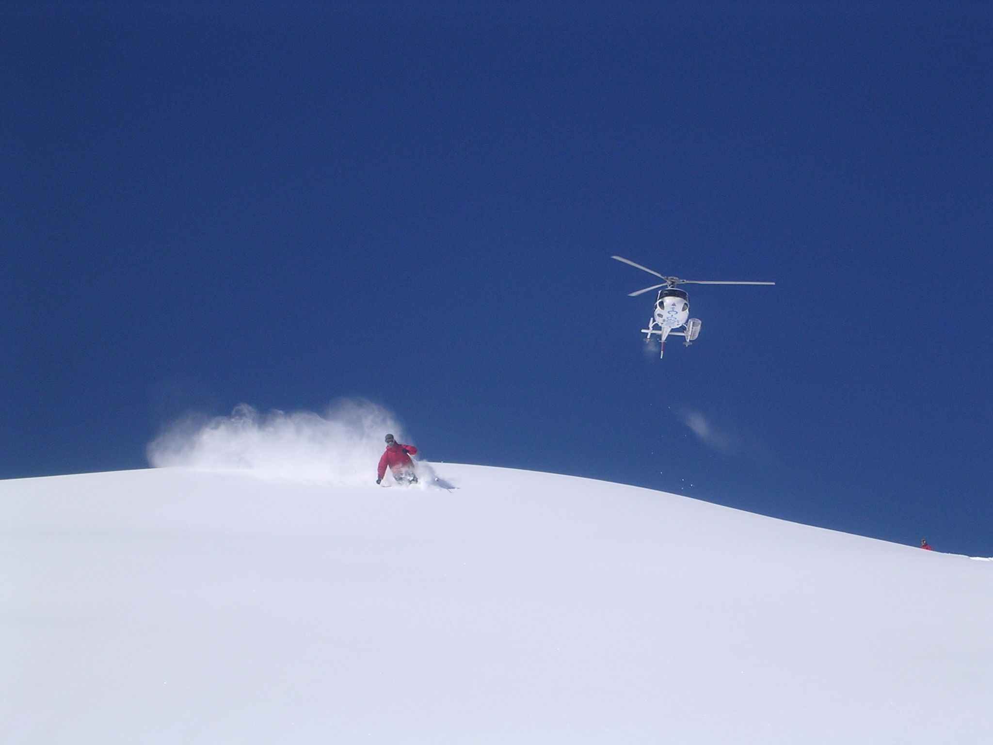 A skier going down a slope after being dropped by a helicopter